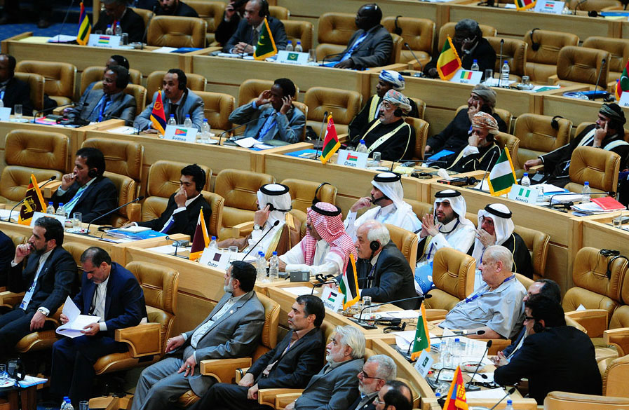 Closing ceremony of the Non-Aligned Movement (NAM) summit with the presence of members’ heads of state with an inaugural speech by supreme leader of Iran, Ayatollah Ali Khamenei.